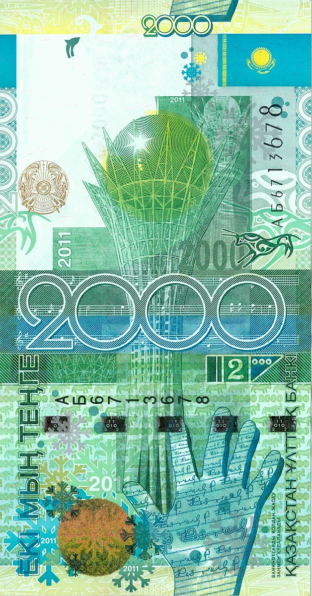 The averse side of 2000 tenge commemorative banknote for 2011 year - the VII-th Winter Asian Games in Kazakhstan